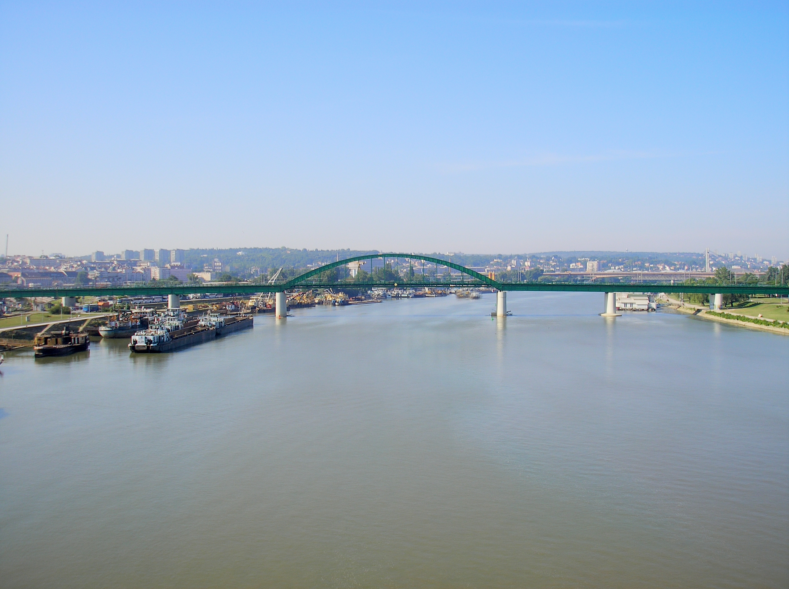 View of Old Sava bridge in Belgrade, Serbia. Scene taken from Branko's bridge. This is a quasi-HDR tone mapped image, created out of five shots with -2, -1, 0, +1 and +2 EV. Used custom software and algorithm. The image finalized in GIMP.